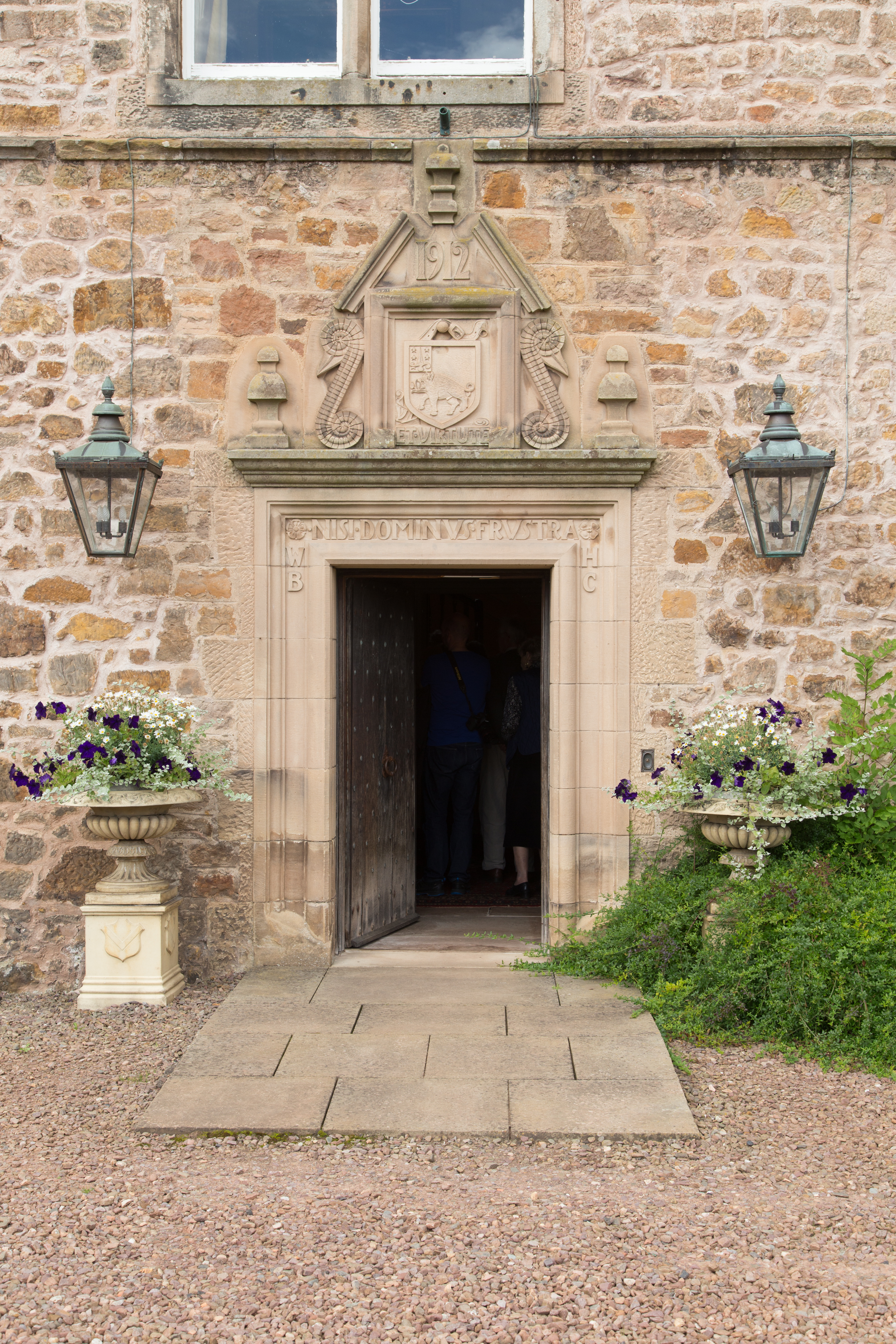 Lennoxlove House Wikidata has entry Q6522893 with data related to this item.